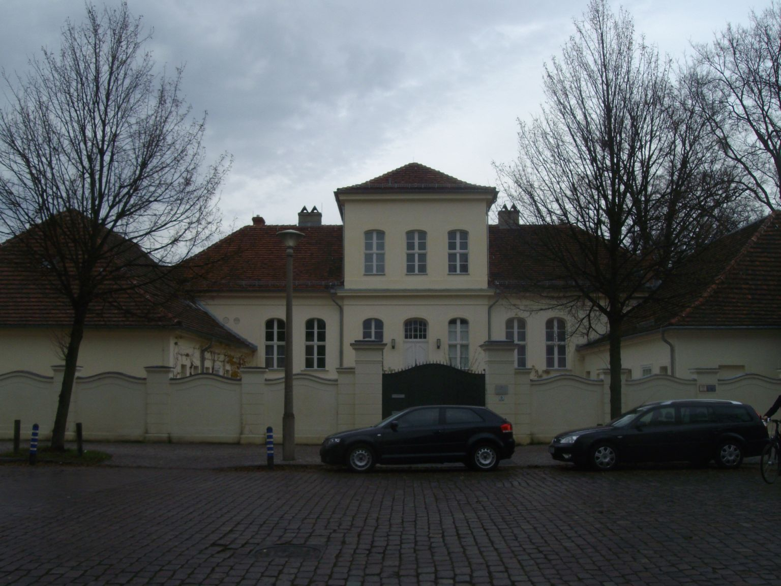 The Lordmarschallhaus or Keith-Haus in Potsdam, Lennéstrasse 9. The Earl Marischal George Keith (1693-1778) lived here near Sanssouci.